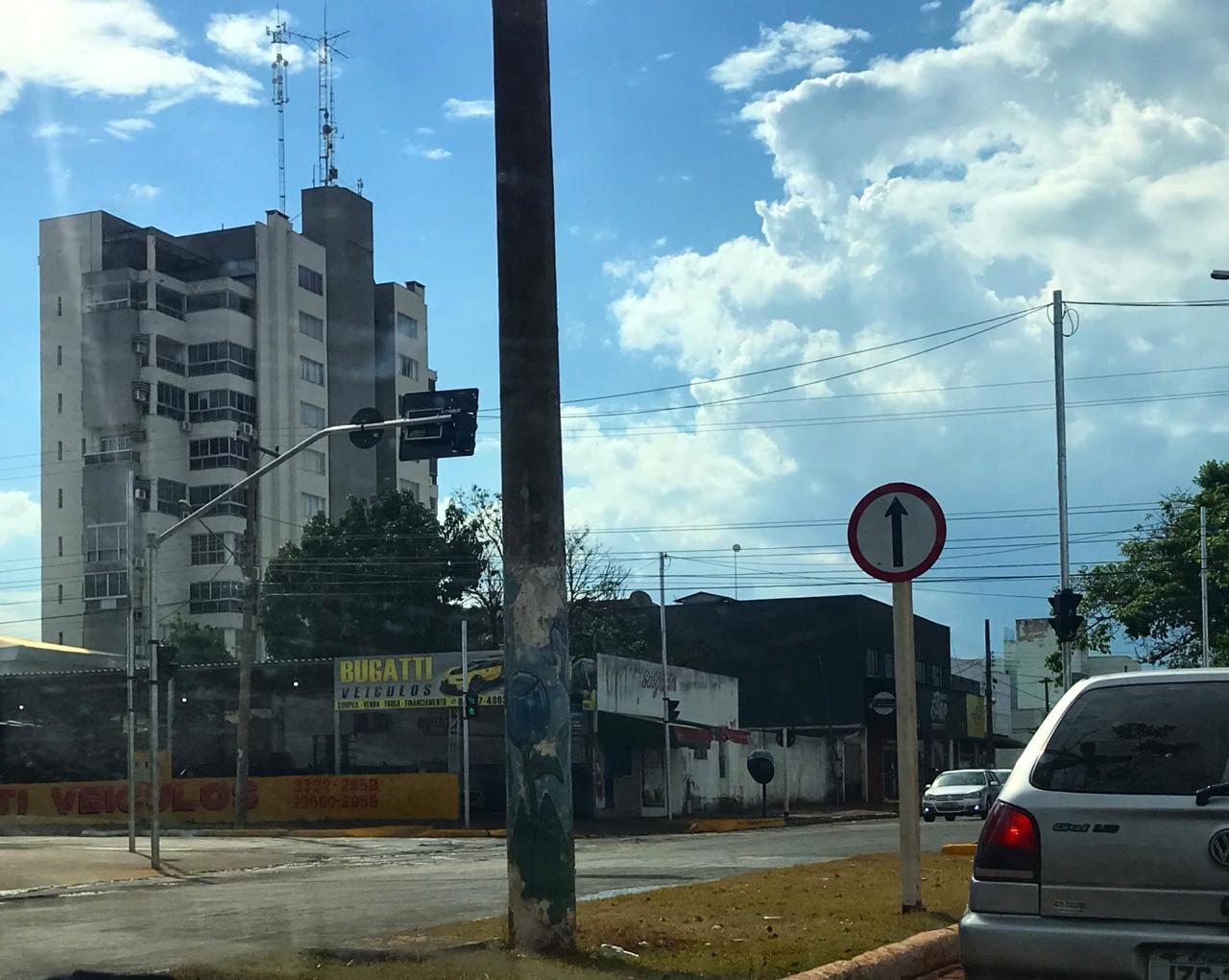 Tangará da Serra